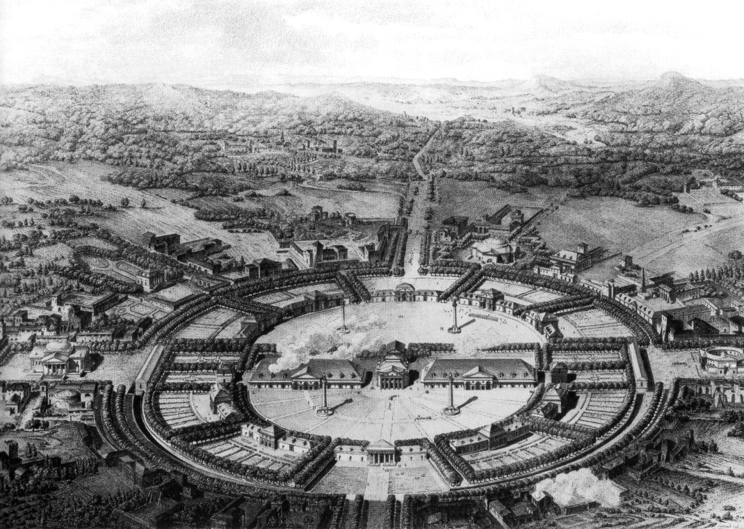 Claude-Nicolas Ledoux: Projekt for the salt-works at Chaux, France. Birds-view.